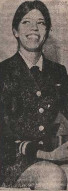 Lieutenant Susan Schnall, a U.S. Navy nurse, on the day of her January 1969 court-martial for anti-Vietnam war activity